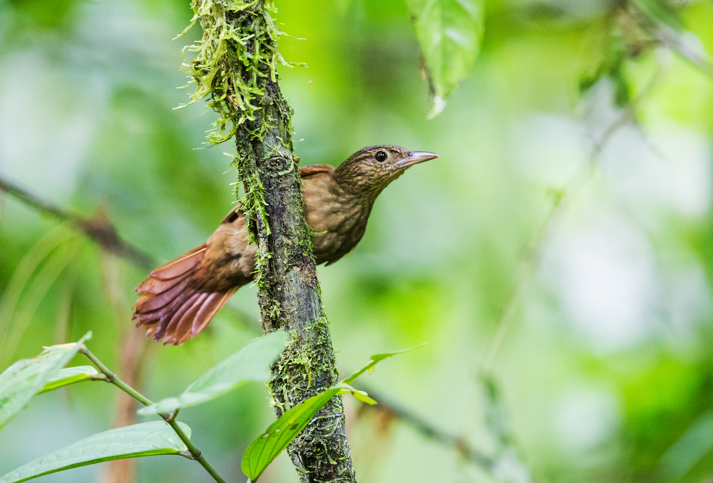 Western (Striped) Woodhaunter from La Unión, Esmeraldas, Ecuador.